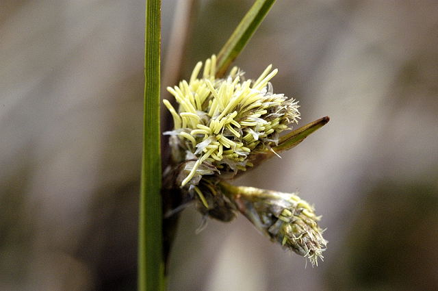 Picture taken in Commanster, Belgian High Ardennes . Species: Eriophorum angustifolium flower